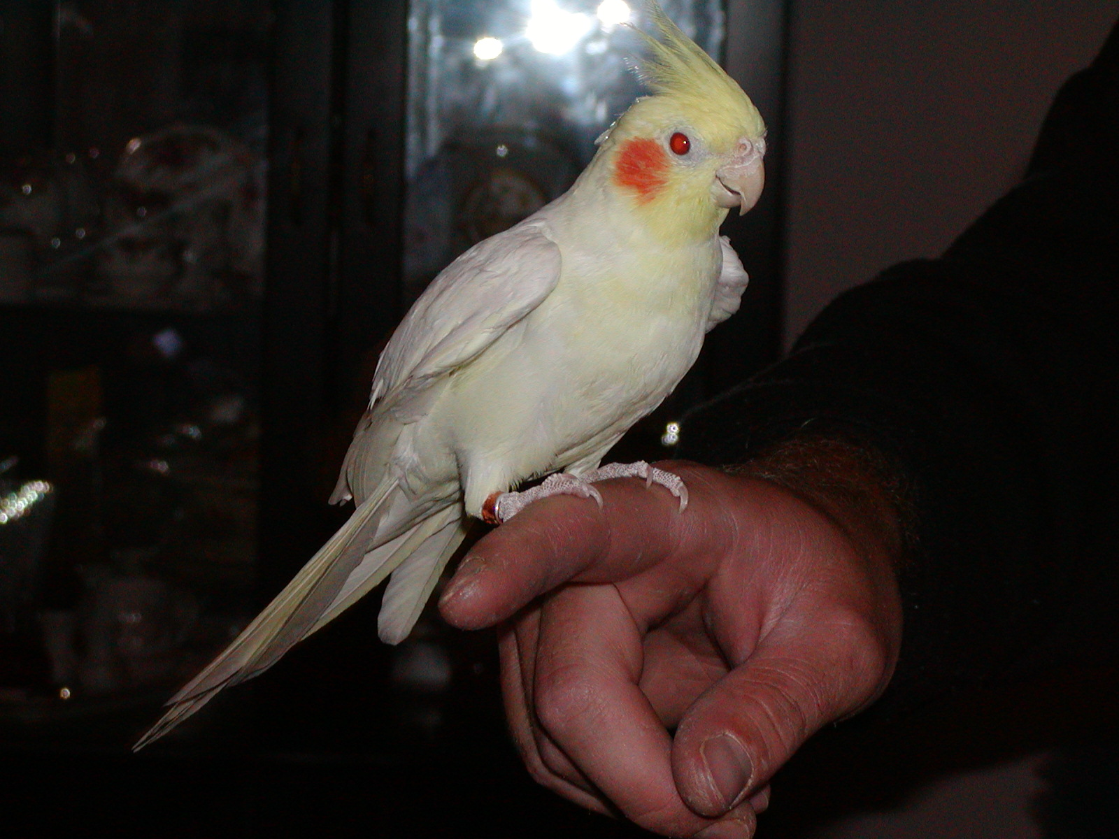 Our ruby-eyed Cockatiel (fallow mutation)